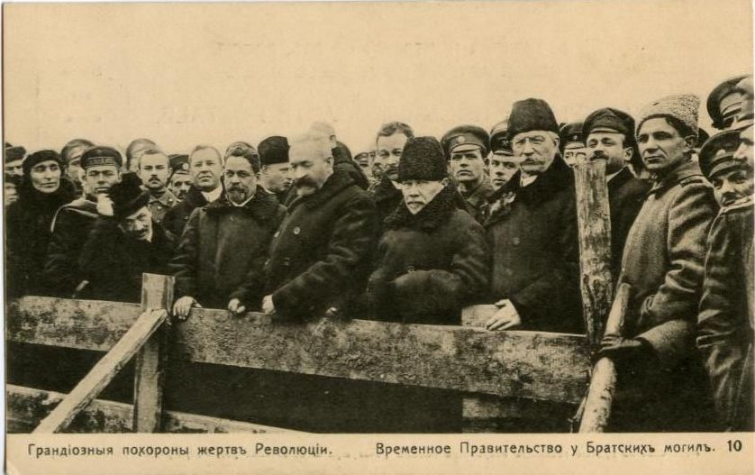 Carte Postale (Open Letter) with view of February Revolution events in Petrograd, Russian Empire